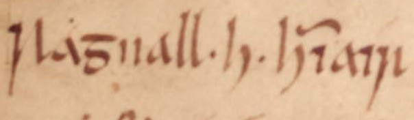 An excerpt from folio 29r of Oxford Bodleian Library MS Rawlinson B 489 (the Annals of Ulster). The excerpt concerns Ragnall ua Ímair (died 920/921). }